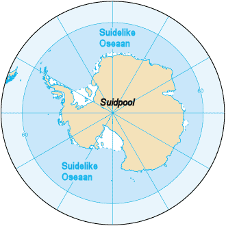 Afrikaans map of the South Pole.